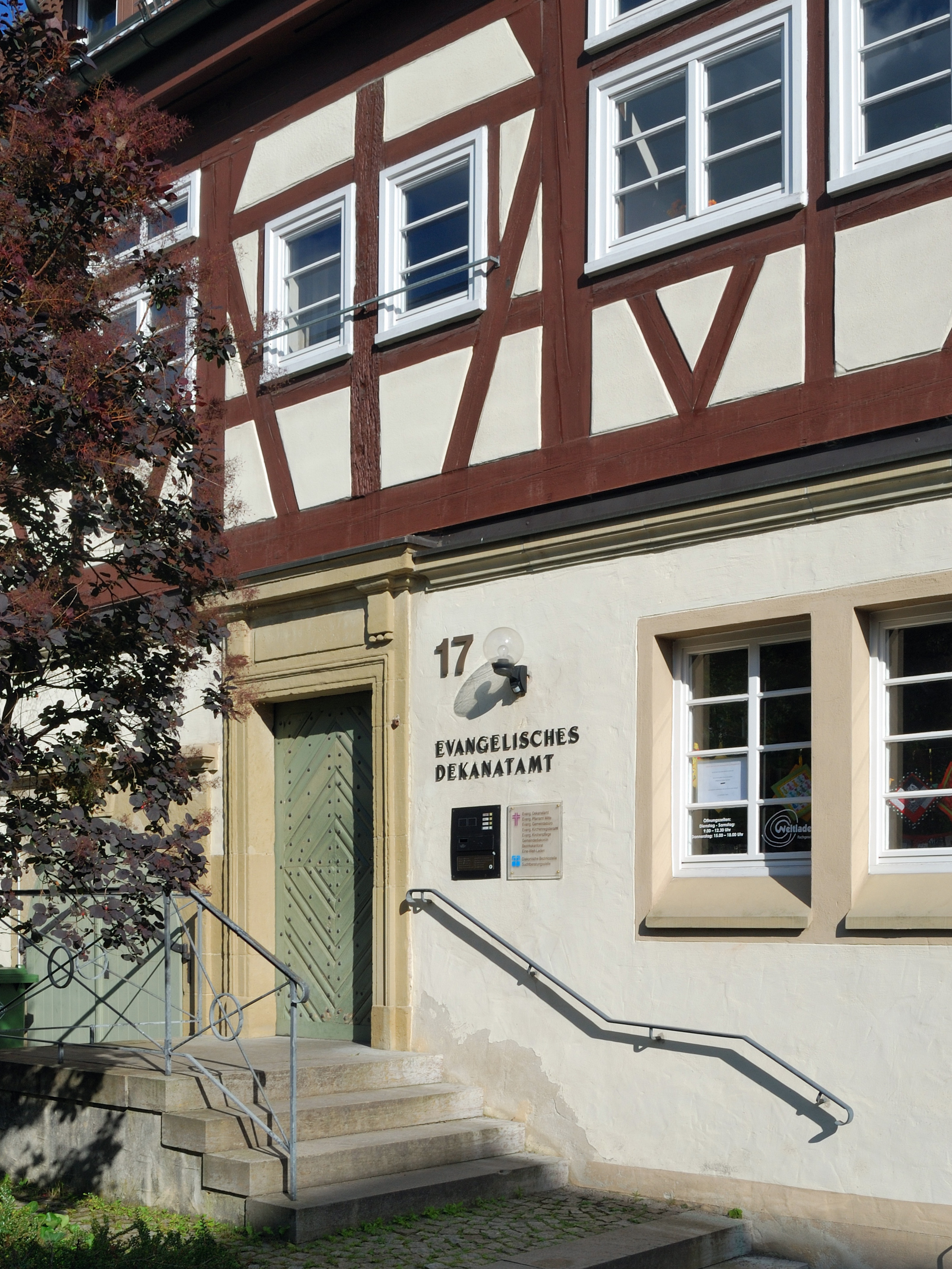 The protestant deanery office in Ditzingen, in the German Federal State Baden-Württemberg.